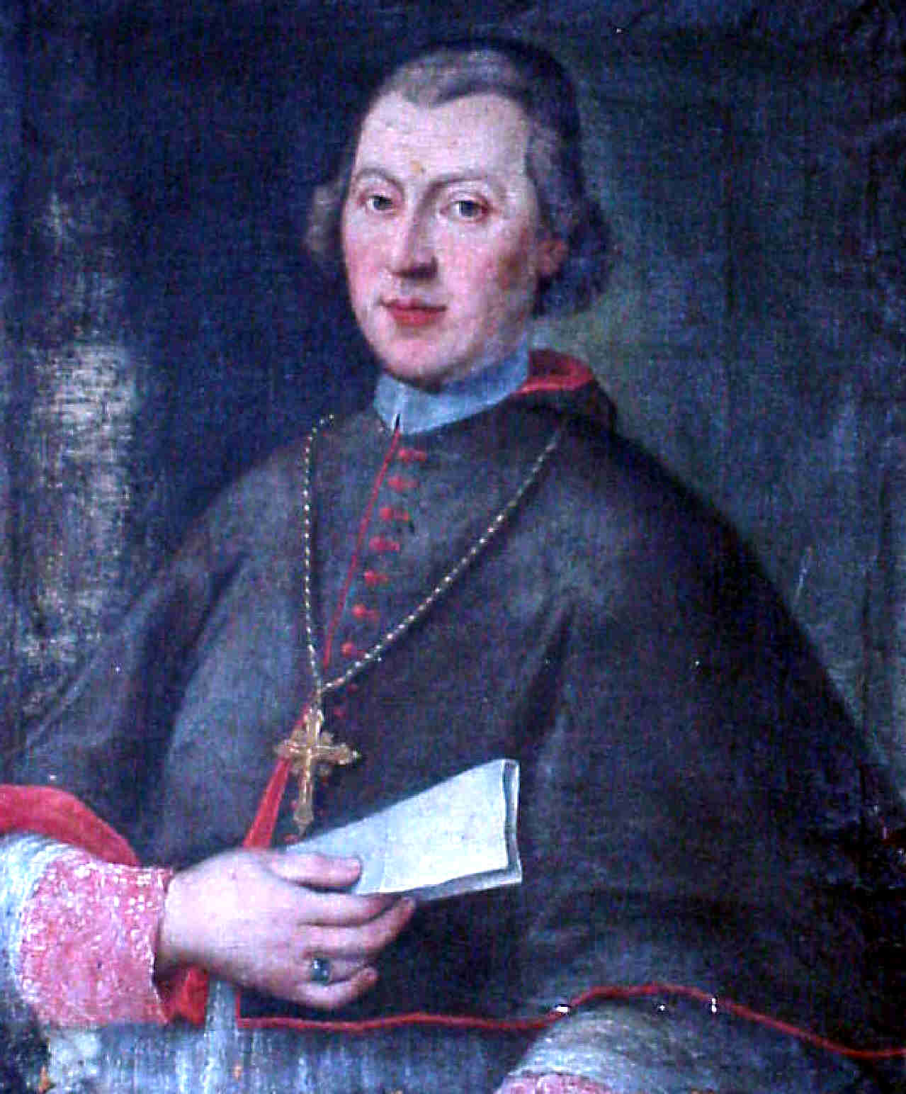 Marco Aurelio Balbis Bertone, archbishop of Novara